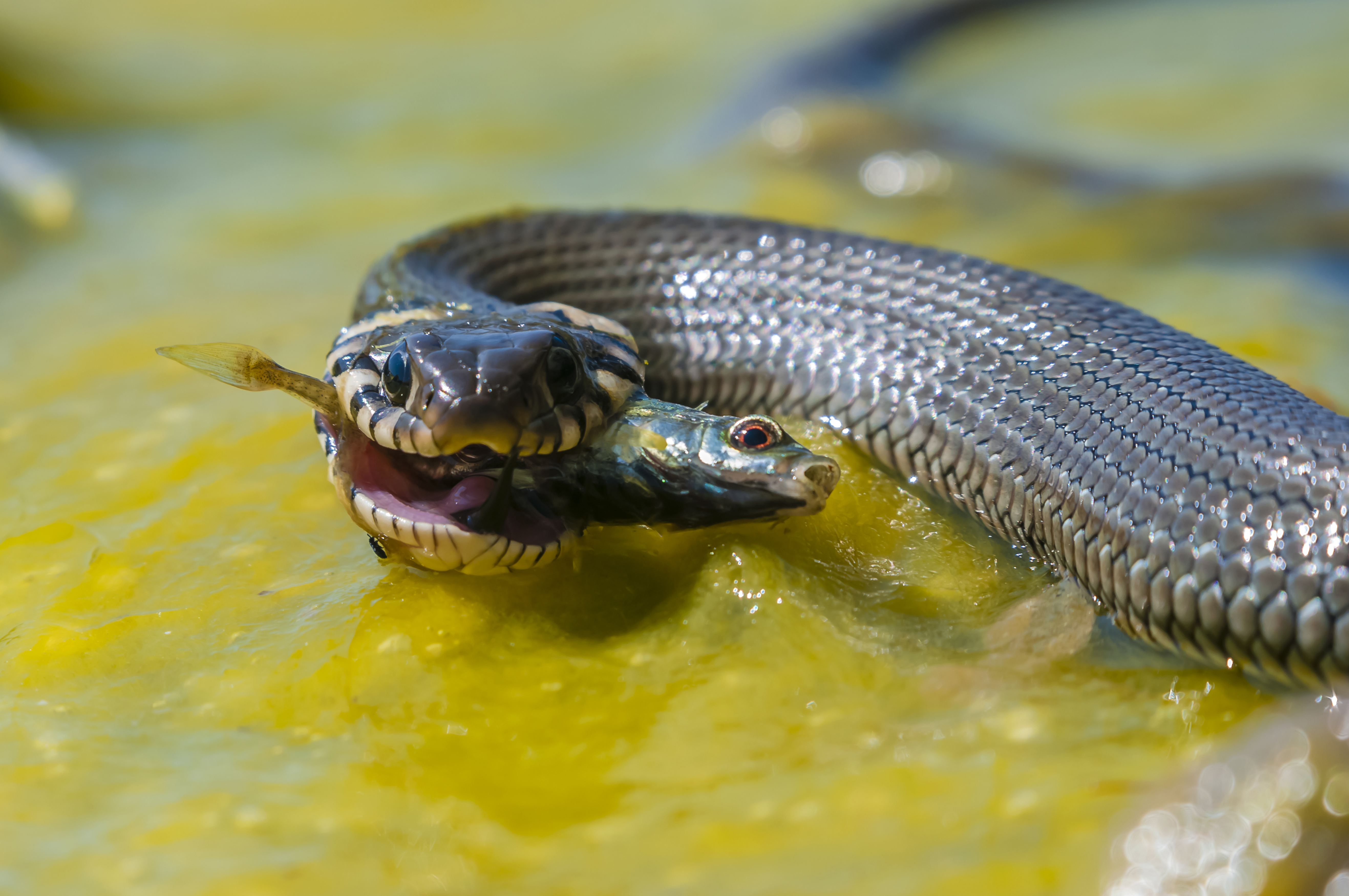 Grass snake (Natrix natrix) at the sea shore in Tallinn. Snake caught fish in the sea and crawls to shore.